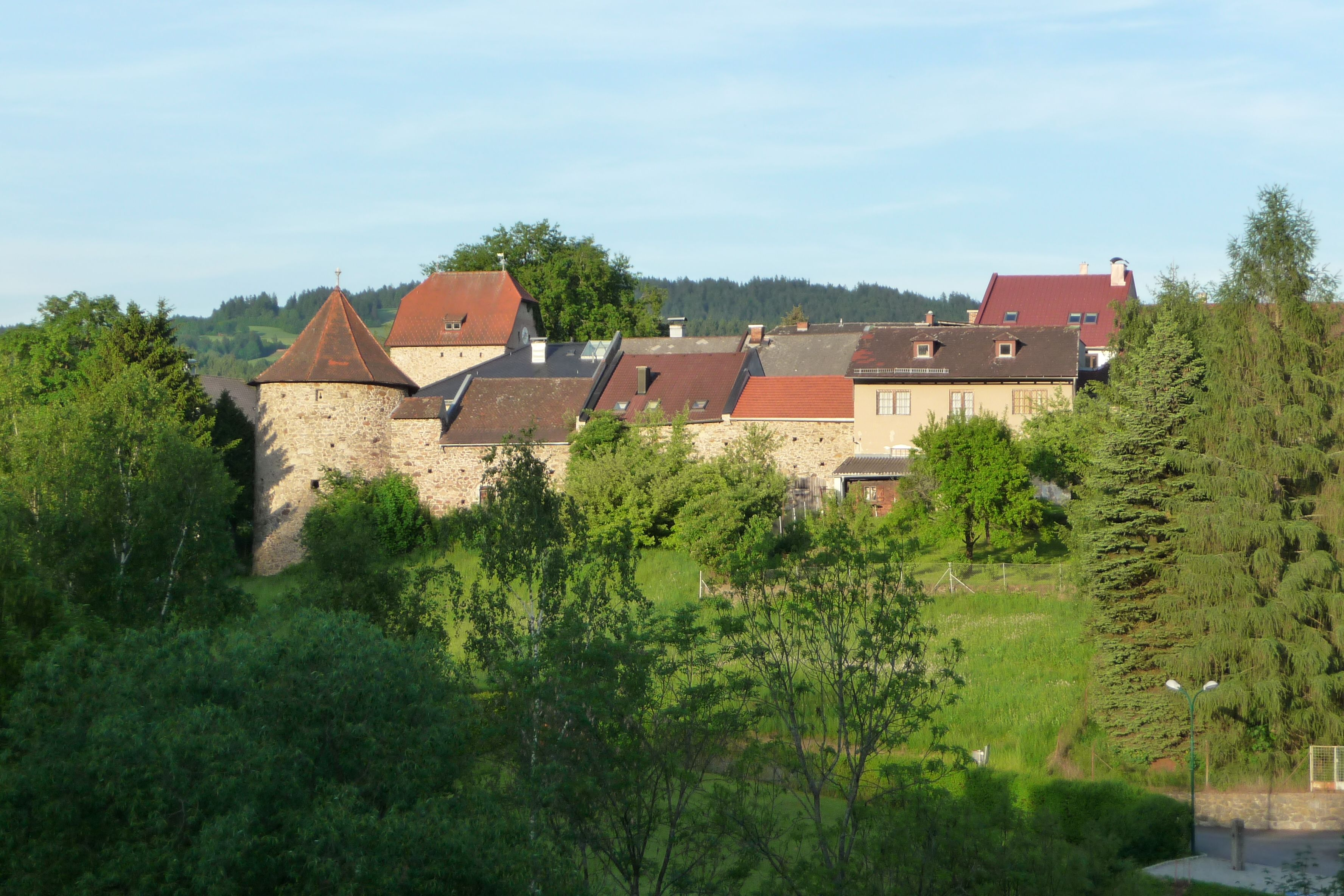 Part of old city wall of Haslach an der Mühl in Upper Austria